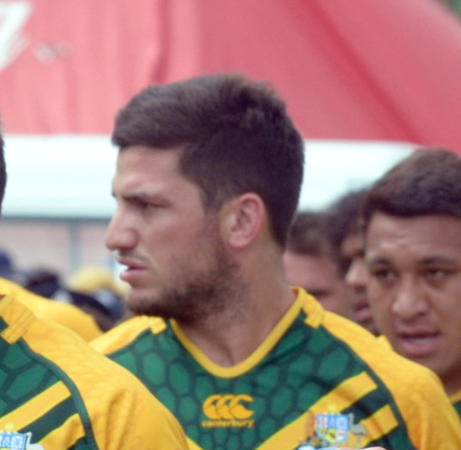 PMs XIII